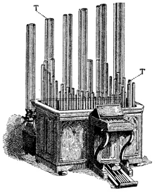 A Pyrophone, possibly the one by Kastner referenced in the publication as being constructed about 20 years earlier. From Hvarför? och Huru? Nyckel till naturvetenskaperna [Why? and How?: Key to the natural sciences], by Ebenezer Cobham Brewer, François Napoléon Marie Moigno & Henri de Parville, translated to Swedish and adapted by Dr Thore Kahlmeter.